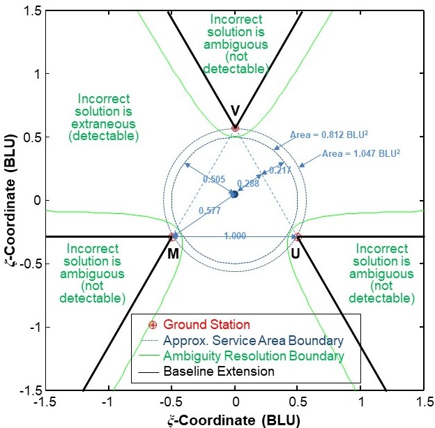 Service area for a 2D (3 station) multilateration navigation or surveillance system